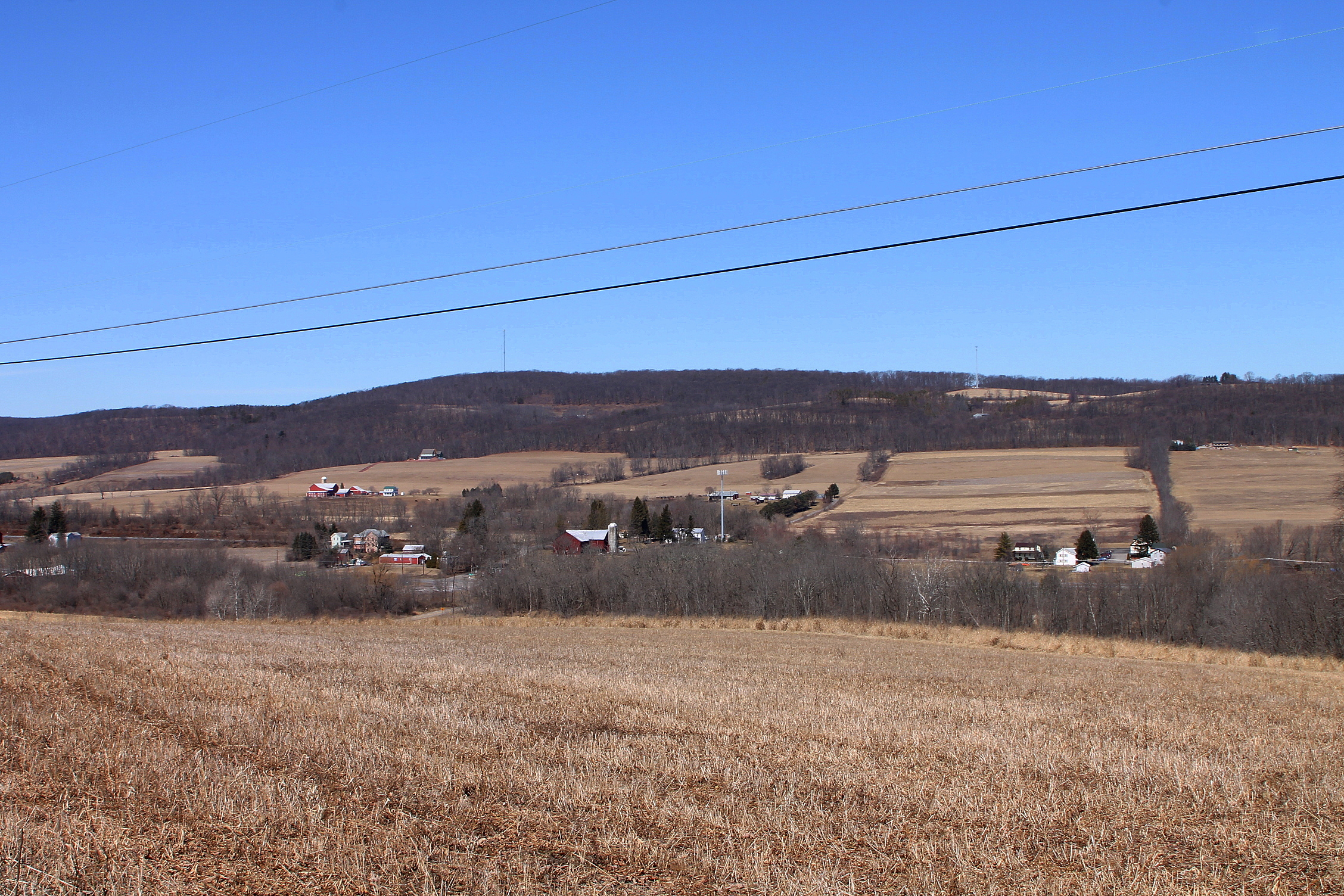 Scenery of the Dutch Valley in Montour Township, Columbia County, Pennsylvania